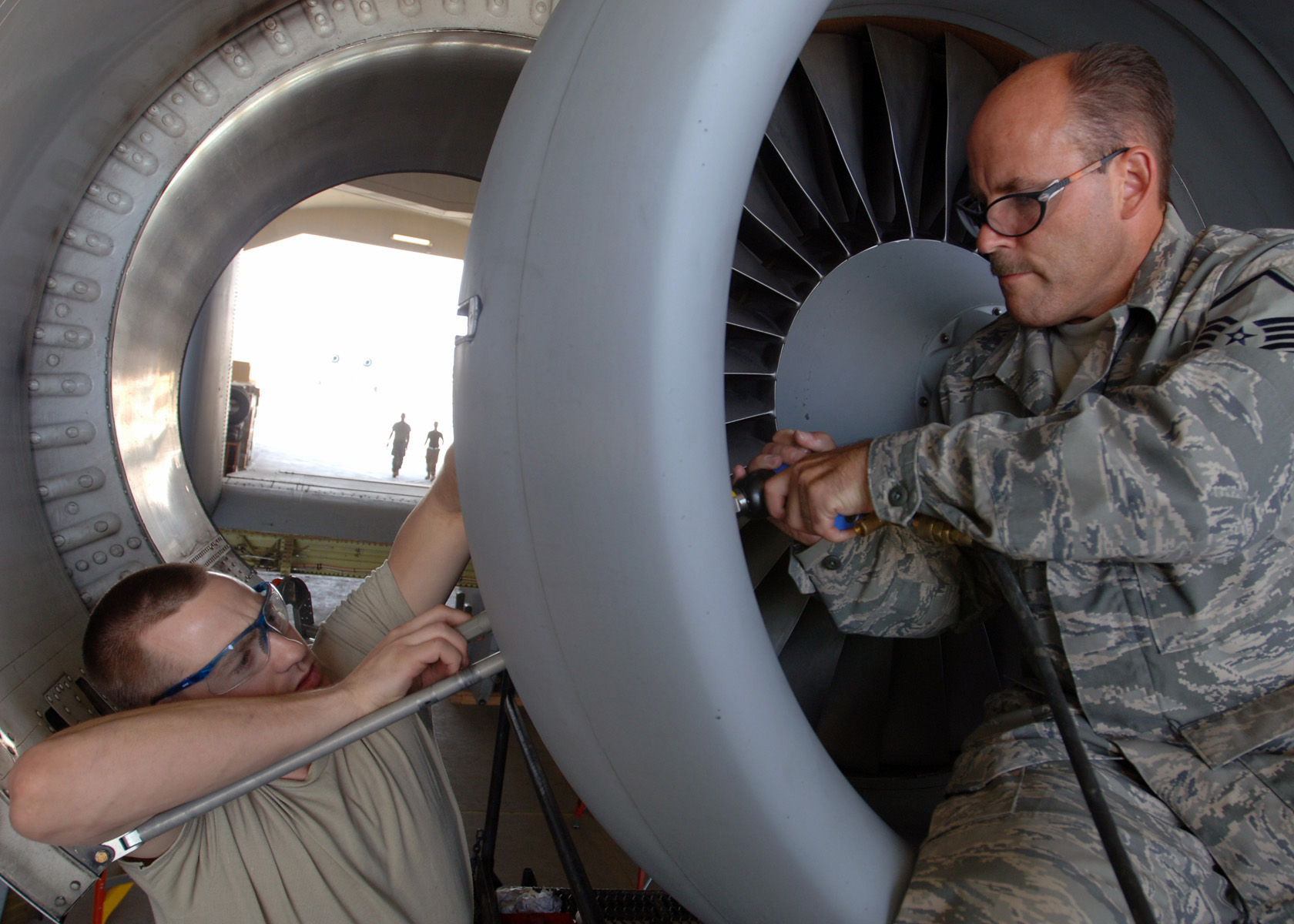 AL ASAD AIR BASE, Iraq -- Staff Sgt. Jonathan Pollack, 438th Air Expeditionary Group structural maintenance technician, (left) and Master Sgt. Anthony Bahur, structural maintenance supervisor, perform a structural repair on an A-10C Thunderbolt II's engine inlet here. The 438th AEG’s newly upgraded A-10C Thunderbolt IIs are the first to fly in combat. Sergeants Pollack and Bahur are deployed from the 175th Wing, Maryland Air National Guard, Baltimore. (U.S. Air Force photo/Tech. Sgt. D. Clare)